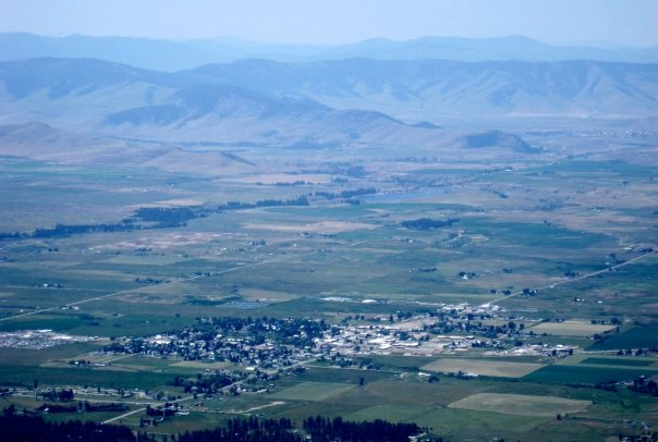 Ronan, Montana as seen from a ridge above North Crow Canyon.